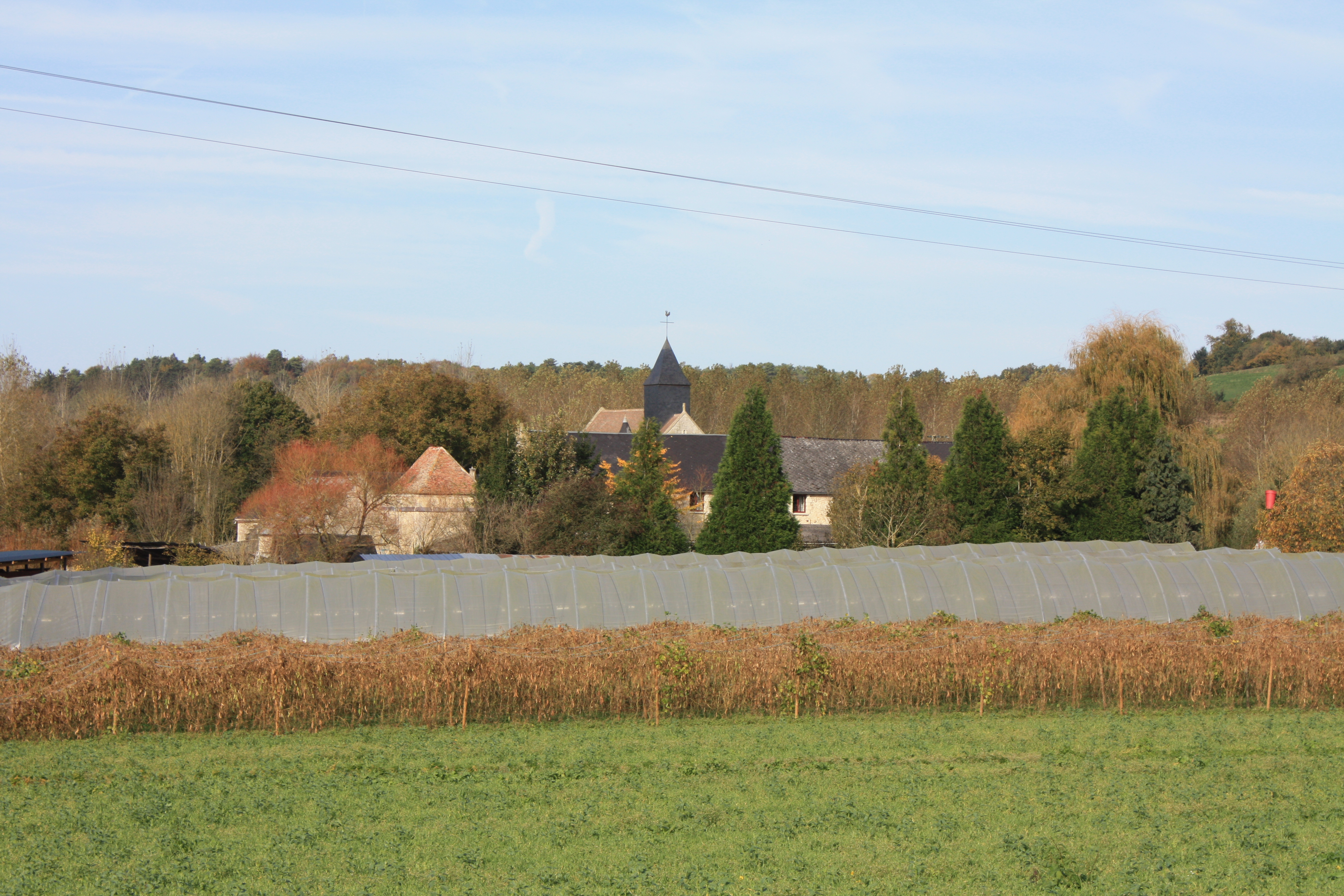 Village Nampteuil-sous-Muret